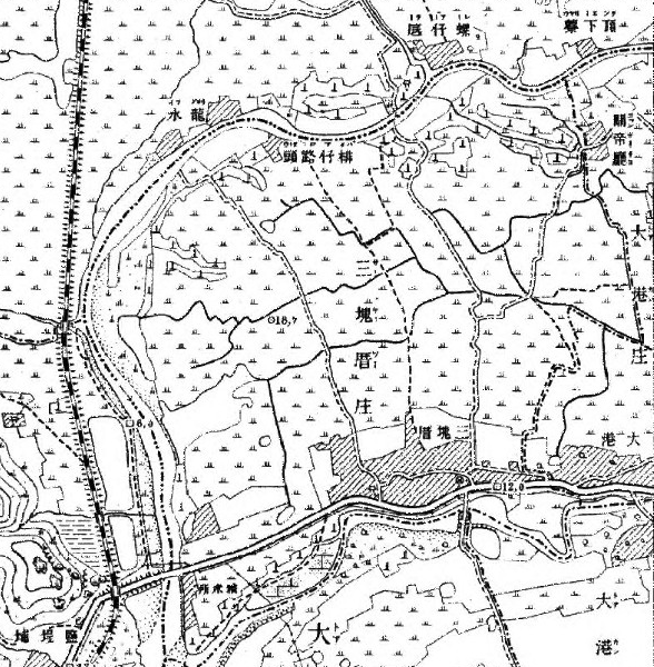 Sankuaicuo